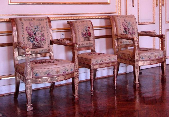 Empire-Furniture , with old Beauvais tapestry a wedding present by French king Louis Philippe to his son-in-law